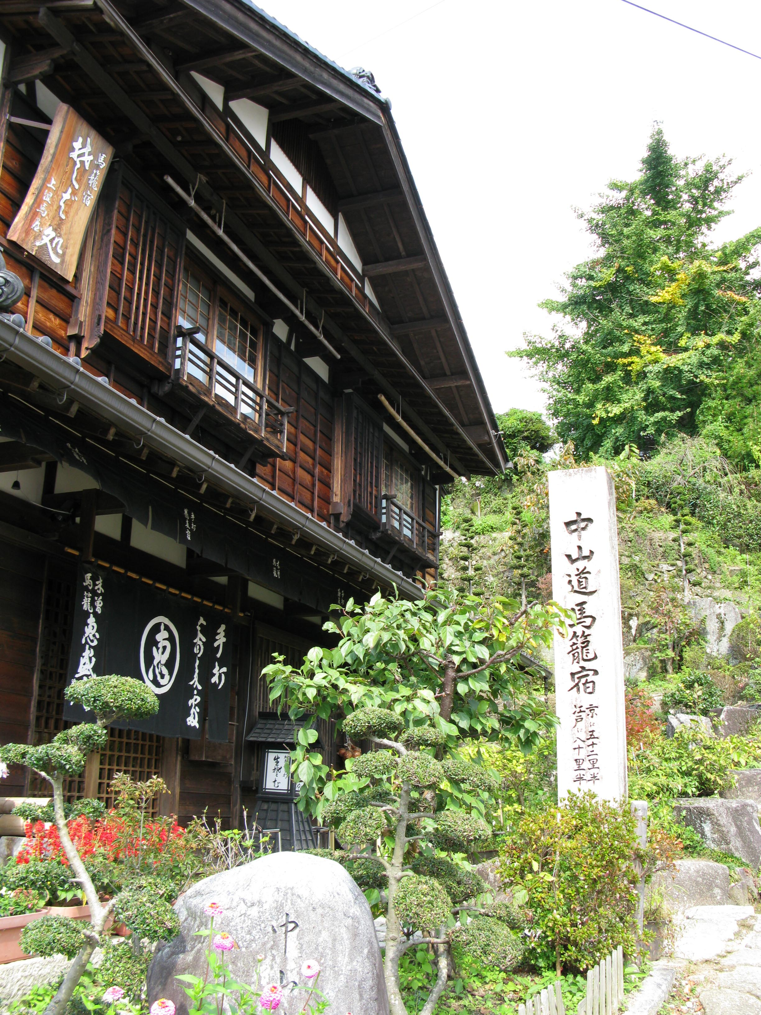 Soba restaurant clanchou in Magome-juku, Gifu